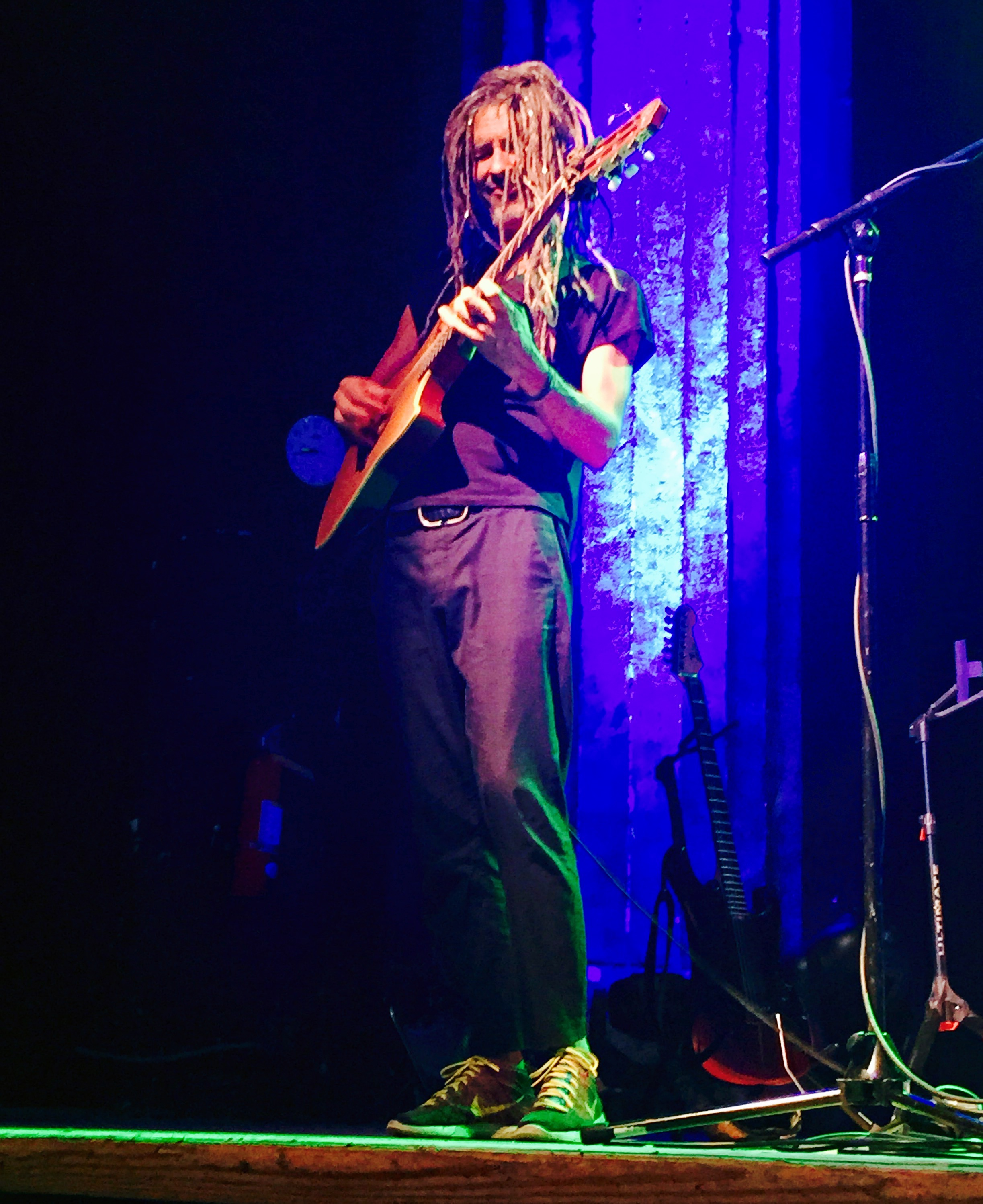 JC Maillard of Grand Baton performing with Lisa Fischer in at Variety Playhouse in Atlanta, GA 19 Sep 2015